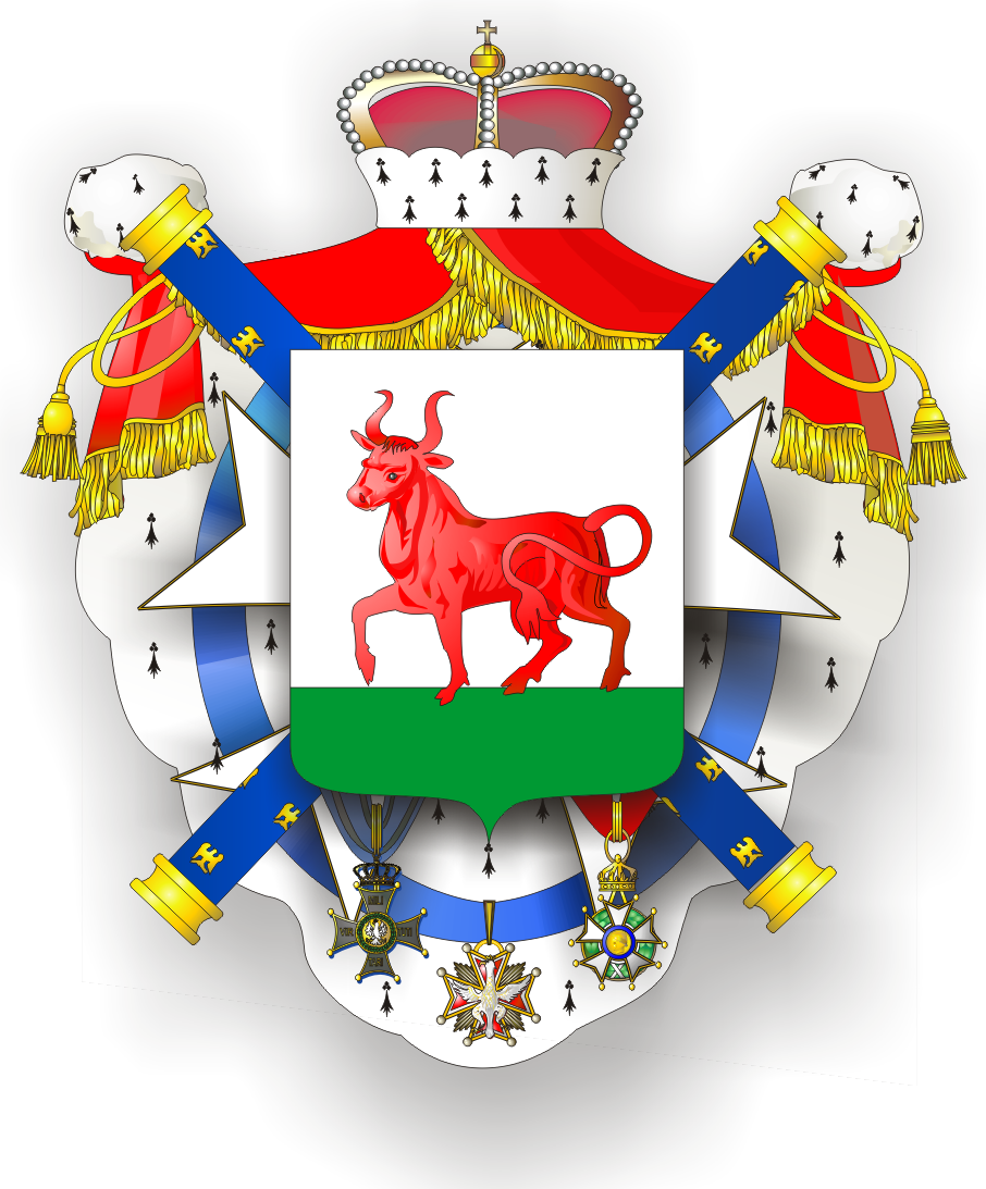 CoA of Prince Józef Poniatiowski, Maréchal de France.